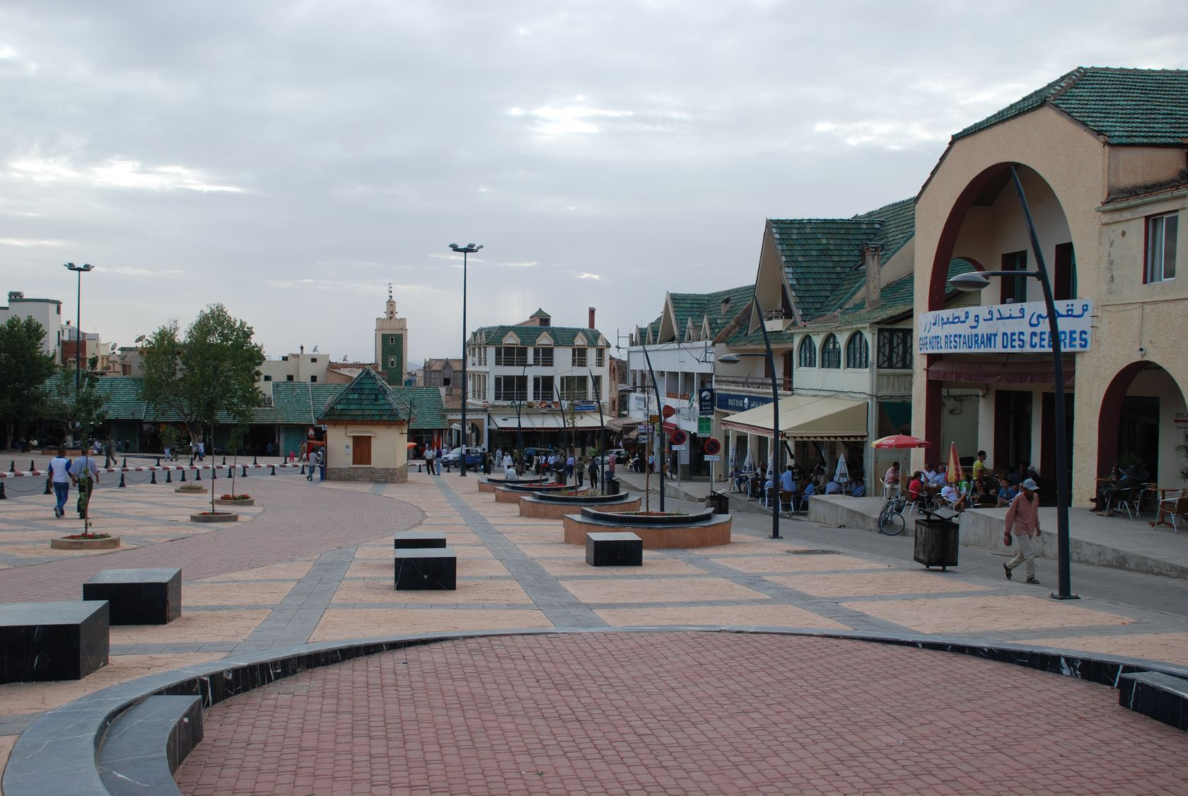 Azrou, Morocco, Place Mohammed V